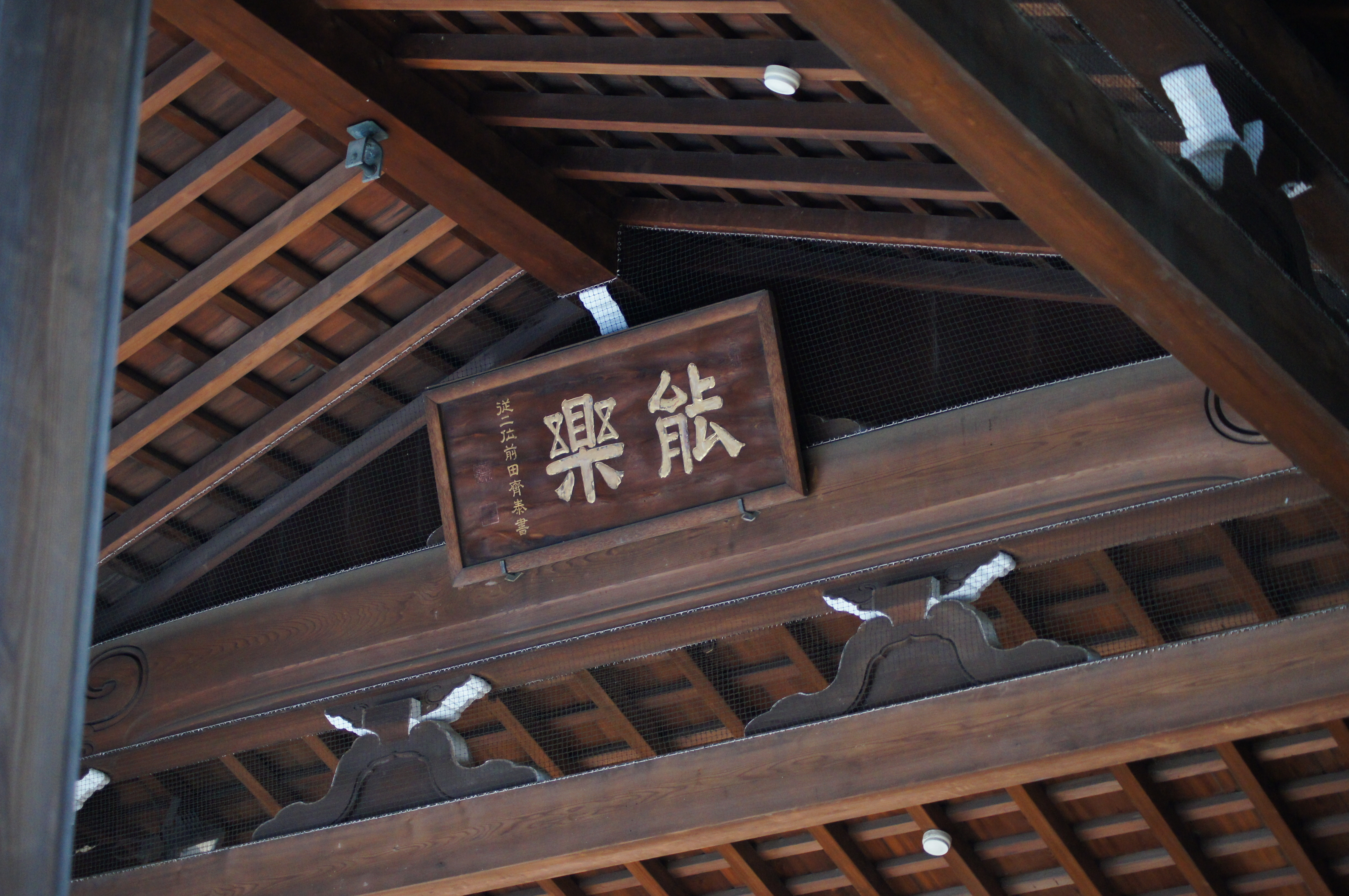 Yasukuni Shrine Nogakudo